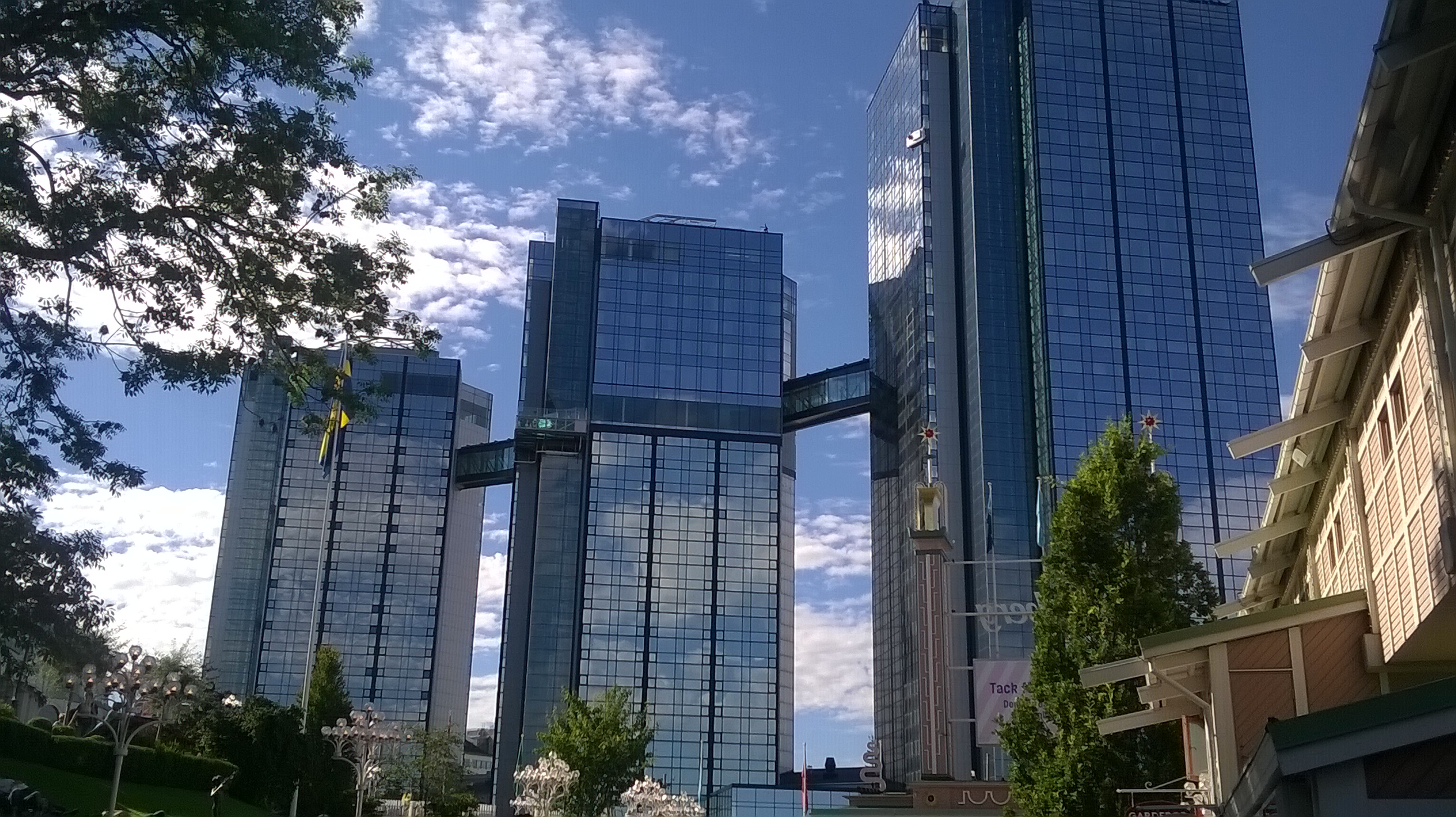 Hotel Gothia Towers in Gothenburg, Sweden 3 August 2015